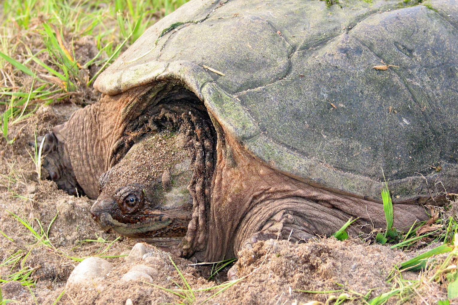 3/4 front view of a female snapping turtle (Chelydra serpentina), taken near the St. Lawrence River in northern New York state.